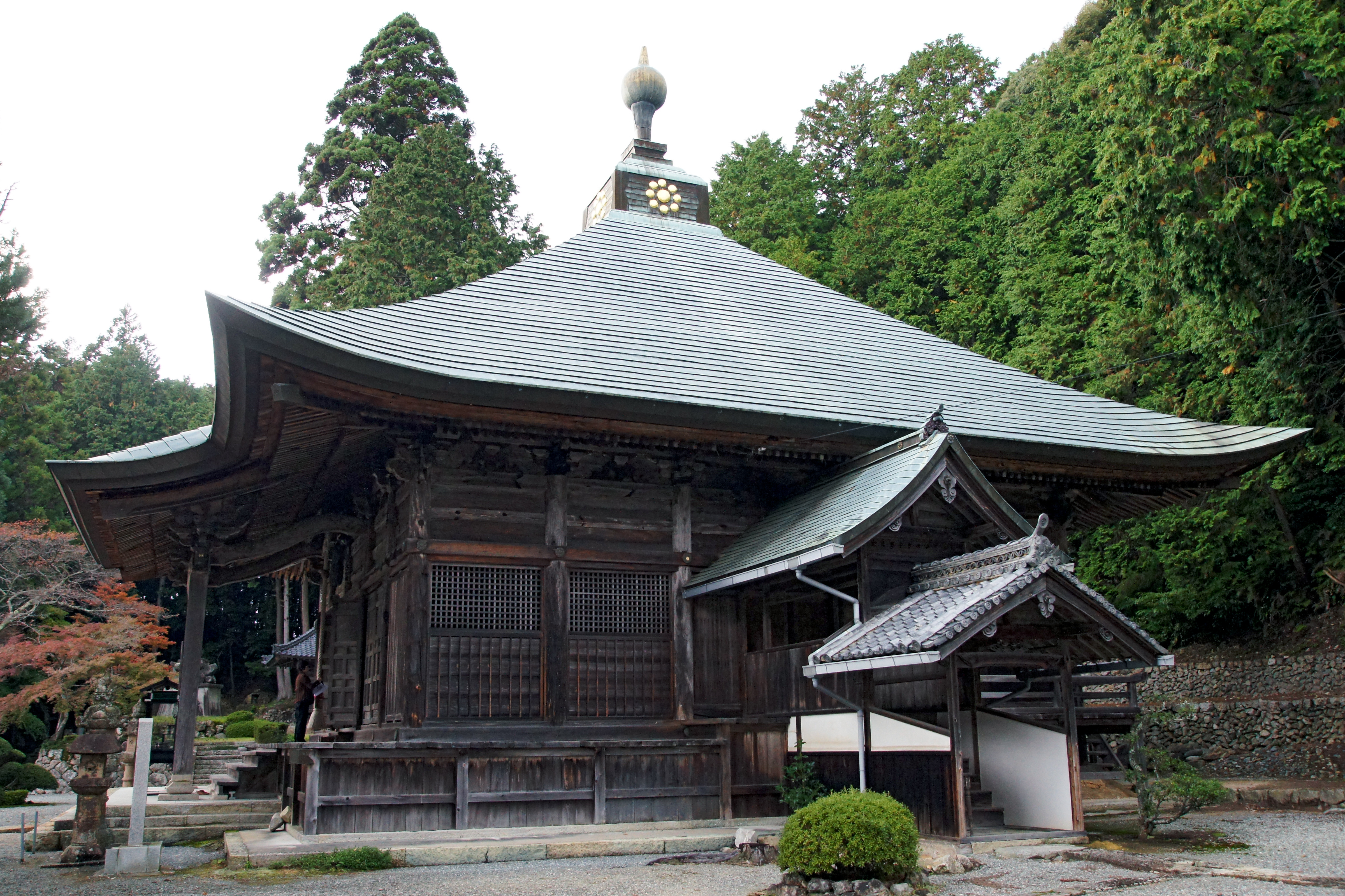 Horaku-ji in Kamikawa, Hyogo prefecture, Japan